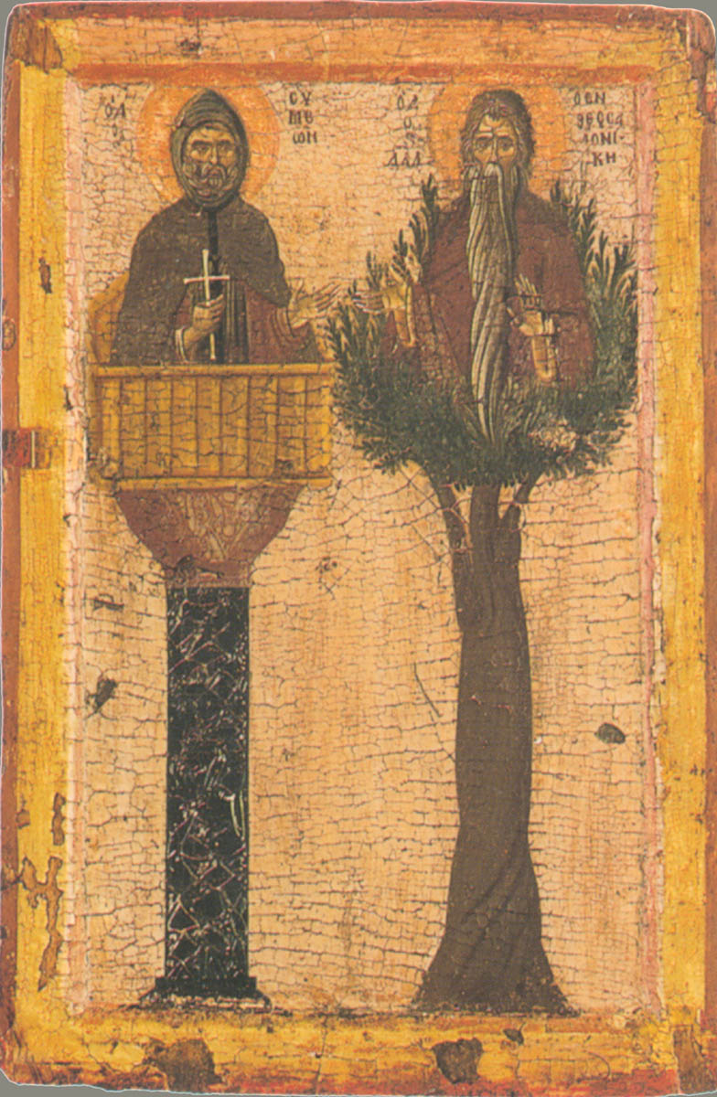 Saint Simeon and Saint David